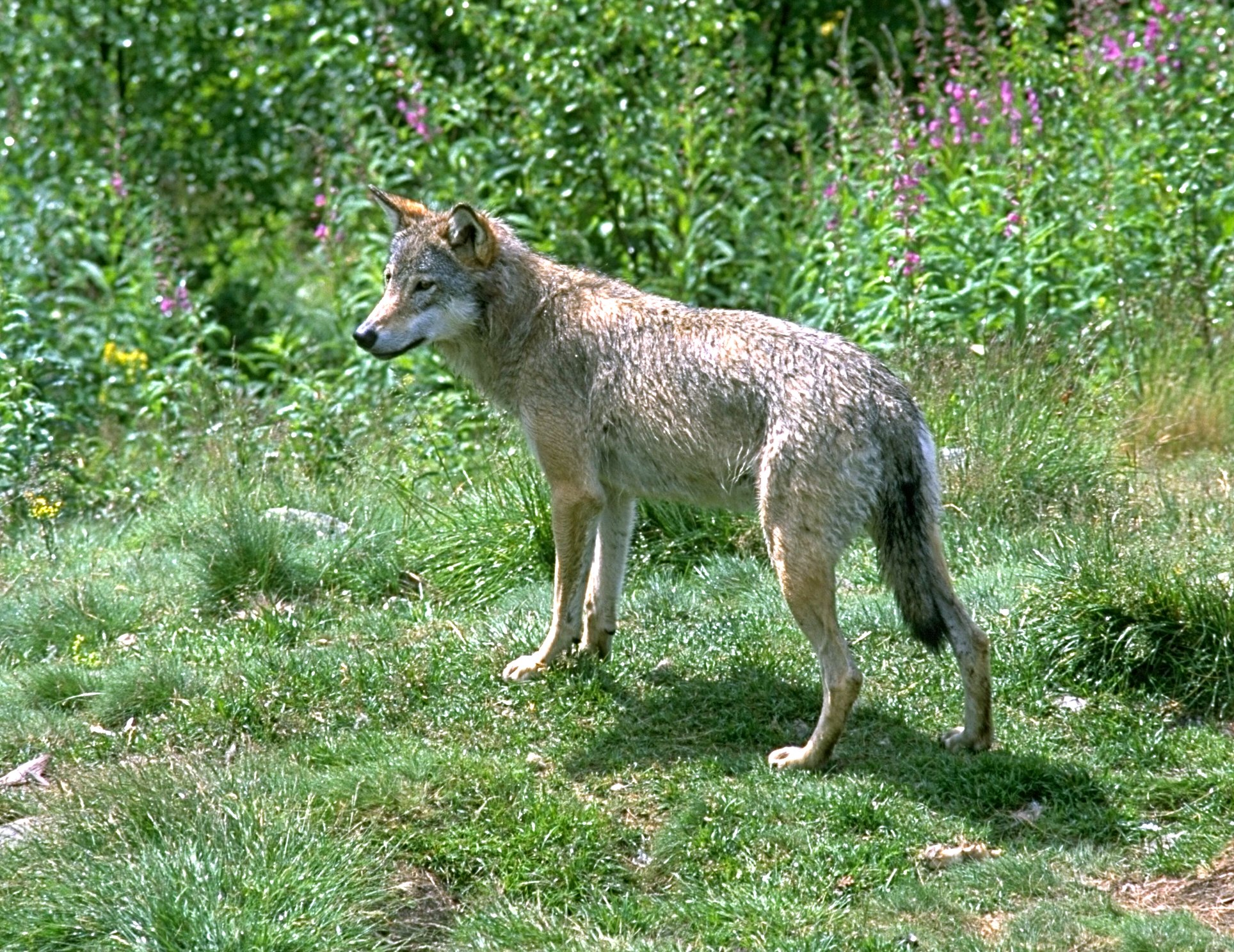 Wolf (Canis lupus) in Numedal Zoo Photo was taken using the following technique: Film: Fuji Velvia Lens: 4/70-210 Filter: none Body: Minolta 7 Support: none Image with Information in English Bild mit Informationen auf Deutsch